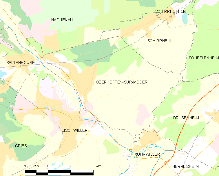 Map of French municipality